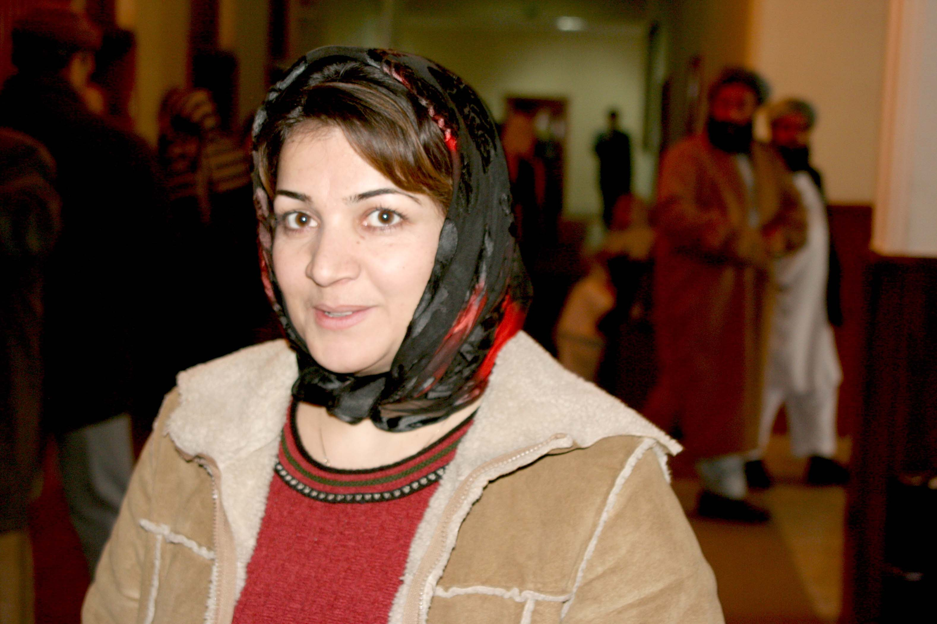 Fauzia Gailani, member of Afghanistan's parliament.